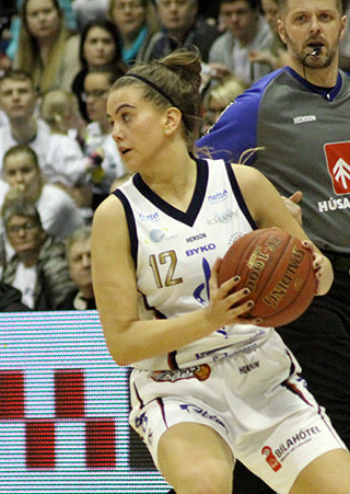 Sara Lind Þrastardóttir (12) of Keflavík during the 2015 Icelandic Women's Basketball Cup.